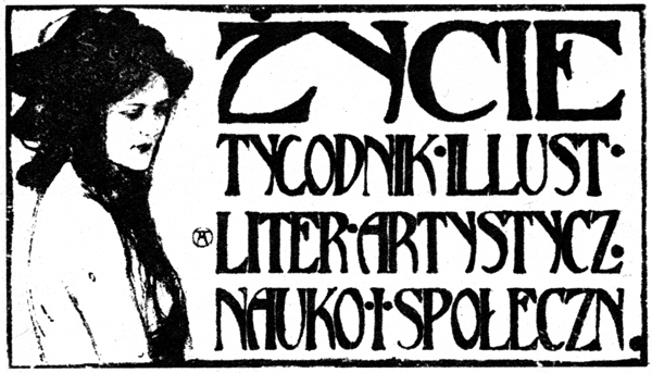 Headpiece for Polish Życie weekly